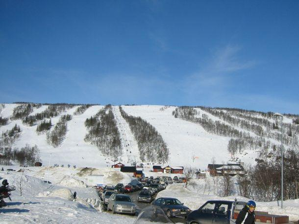 Skiing in the village Storlien